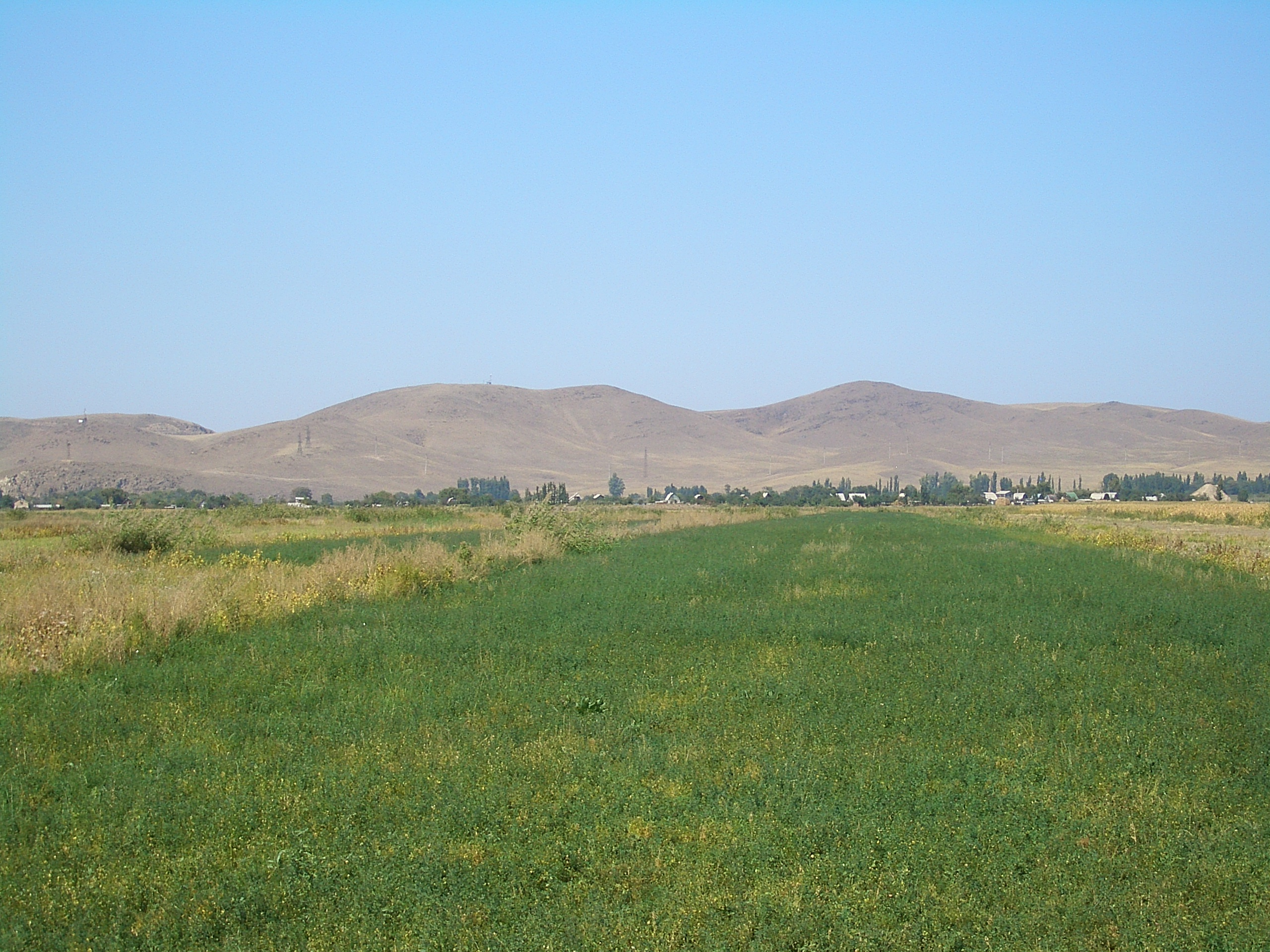 Irrigated fields in the Chuy River Valley. The picture is taken west of Milyanfan, a village on the Kyrgyz side of the river. The hills in the background are already on the Kazakh side (Korday District, Zhambyl Province).